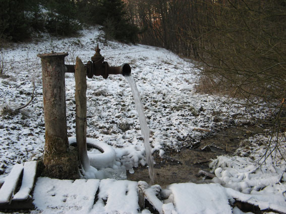 The Čierna Voda river spring